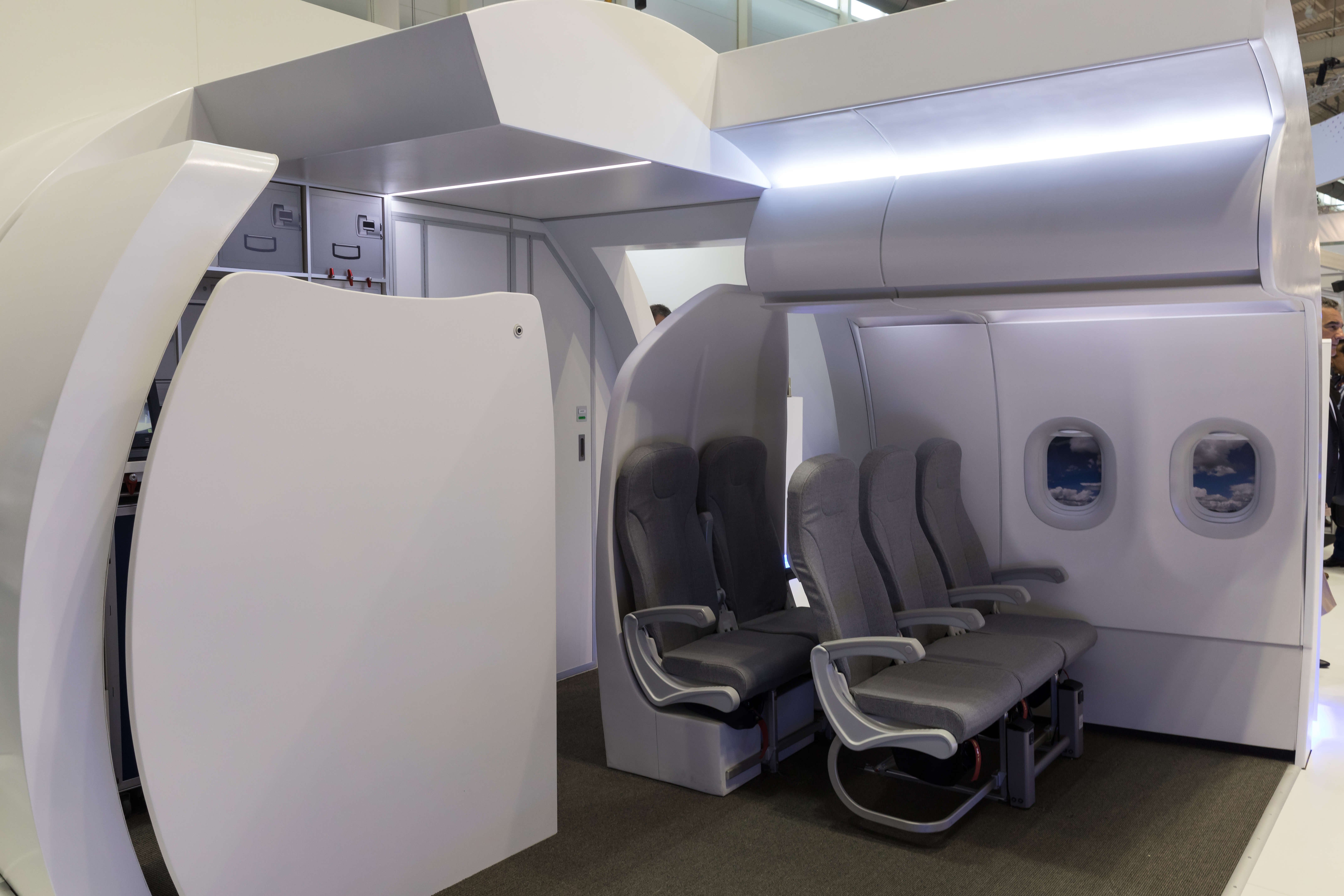 Passenger Experience Week Hamburg 2018